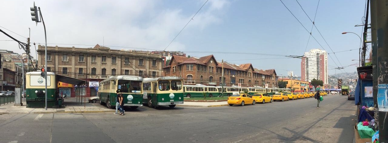 A panoramic view of the Barón terminus (on Avenida Argentina) of the Valparaíso trolleybus system, with seven Pullman trolleybuses laying over or parked. At the far left is the only non-Pullman trolleybus in the photo: Ex-St. Gallen (Switzerland) No. 142, a 1970 Saurer/Hess trolleybus acquired in 1992 and since 2007 permanently located here, for use as a ticket office and break room for trolleybus drivers. Of the two trolleybuses closest to the camera, at the loading stop, the one on the right is No. 116, which has a front end that is very different from the others, because it was heavily rebuilt in 1991–92 and again in late 2014.